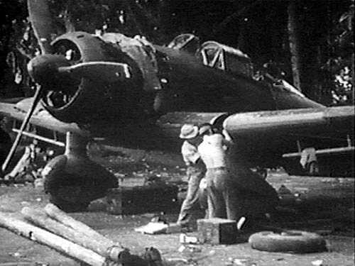 Japanese mechanics performing maintenance on a Aichi D3A2.